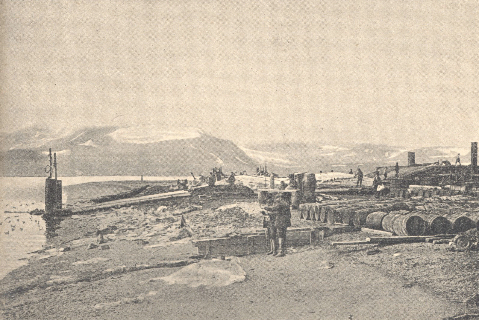 Depecement d'un Balenoptera Sibbaldi au Spitzberg Subject: Balaenoptera, Whaling, Spitsbergen Island (Norway) Geographic Subject: Norway--Spitsbergen Island Tag: Aquatic Mammals